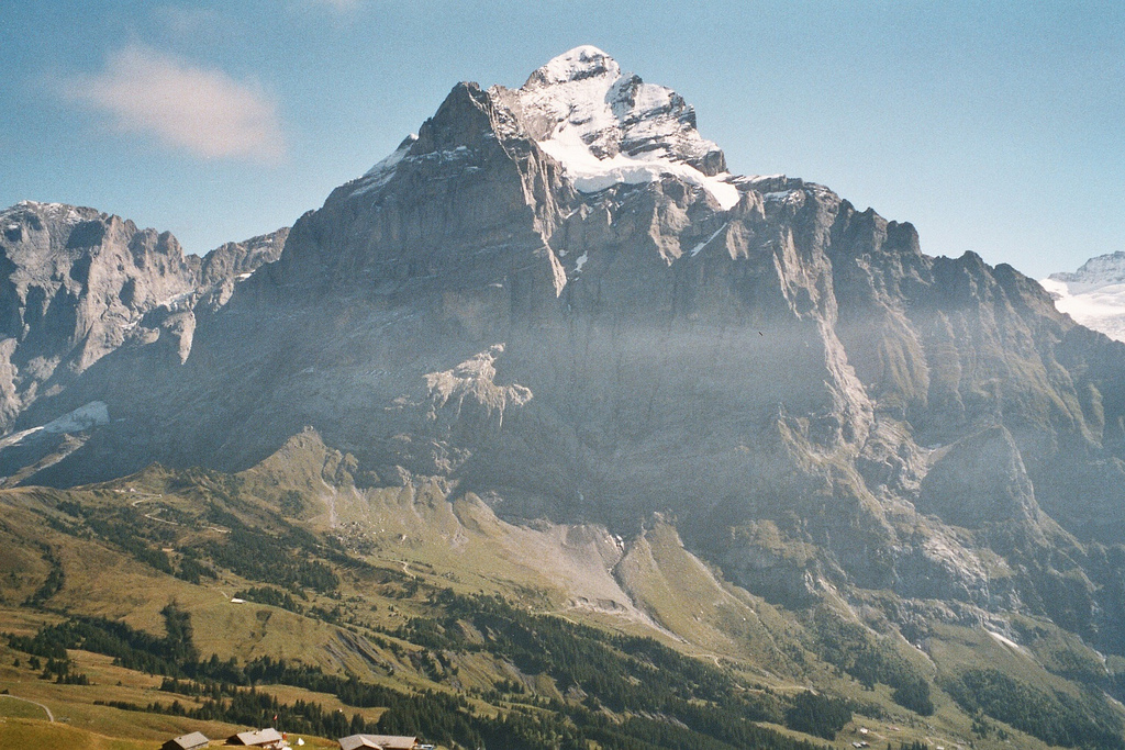 The Wetterhorn from a path between Grosse Scheidegg and the First cable car